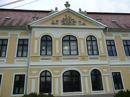 Front view on castle in Plášťovce, Slovakia, Levice district,(built in 1730), from 2000 is the school